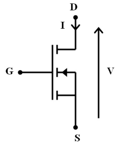 Transistor_MOSFET